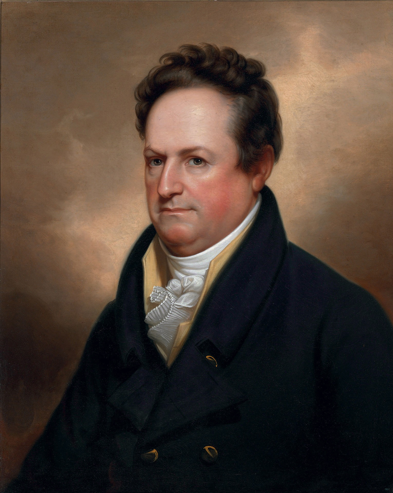 Rembrandt Peale's portrait of DeWitt Clinton, a politician and naturalist who served as United States Senator and the sixth Governor of New York. oil on canvas 28 5/8 x 23 3/8 in. Painted circa 1823